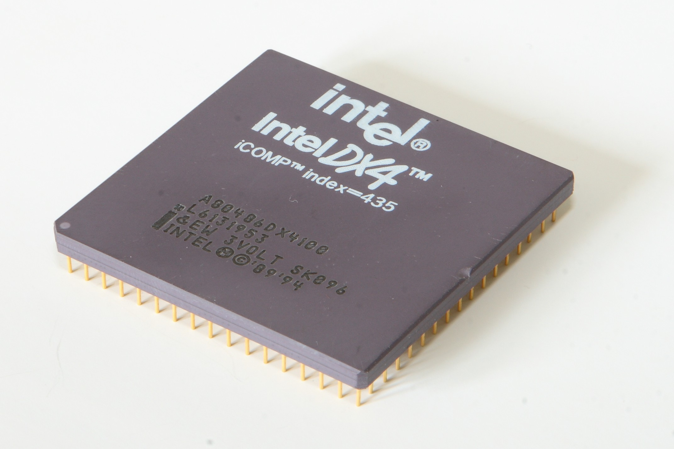 Intel DX4 100MHz Camera data Camera Canon EOS 30D Lens Canon EF 24-70 mm 2.8 L USM Focal length 70 mm Aperture f/19 Exposure time 15 s Sensivity ISO 100 Image Editing Programs Canon Digital Photo Professional